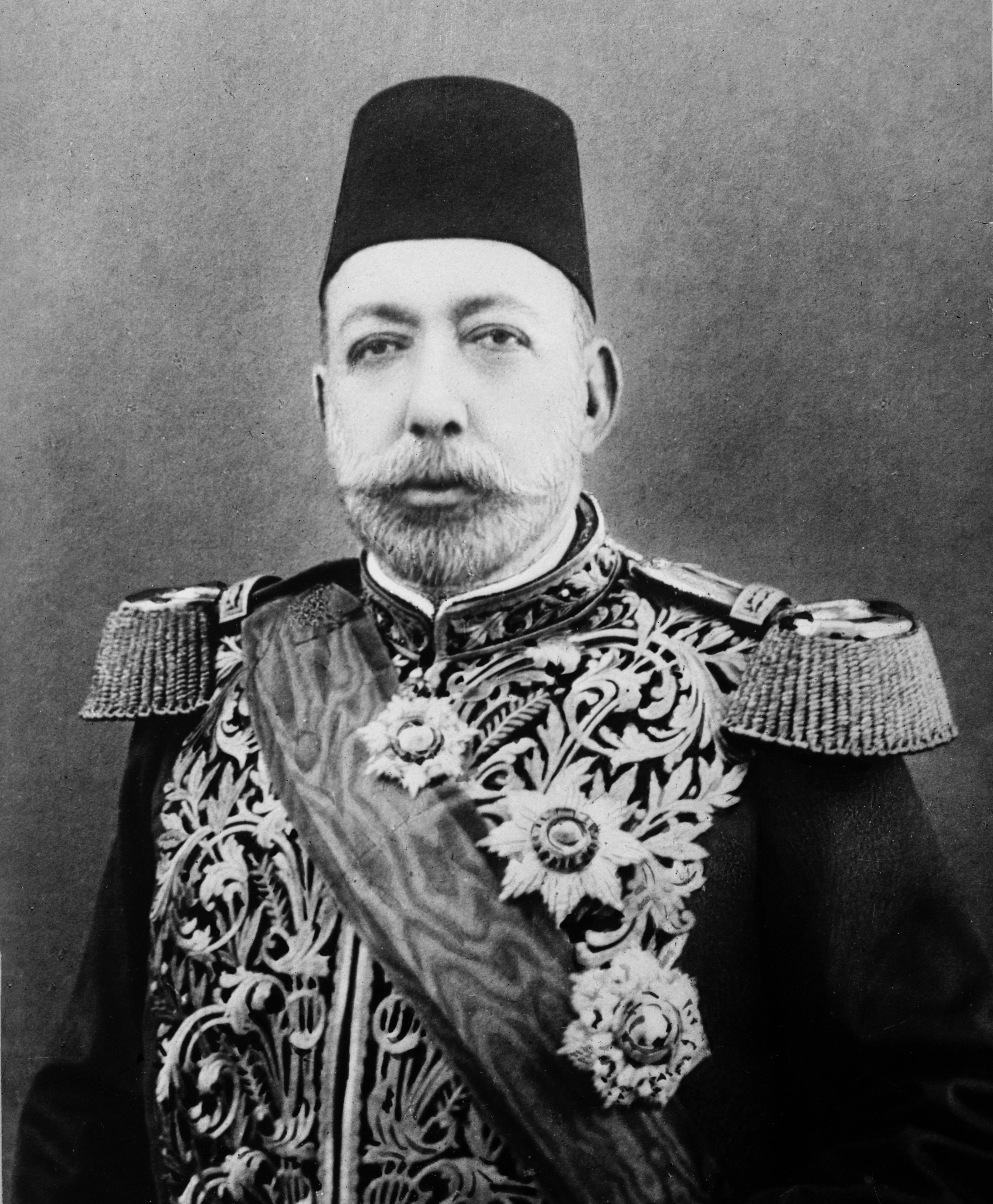 35th Sultan of the Ottoman Empire and 114th caliph of Islam, Mehmed V.